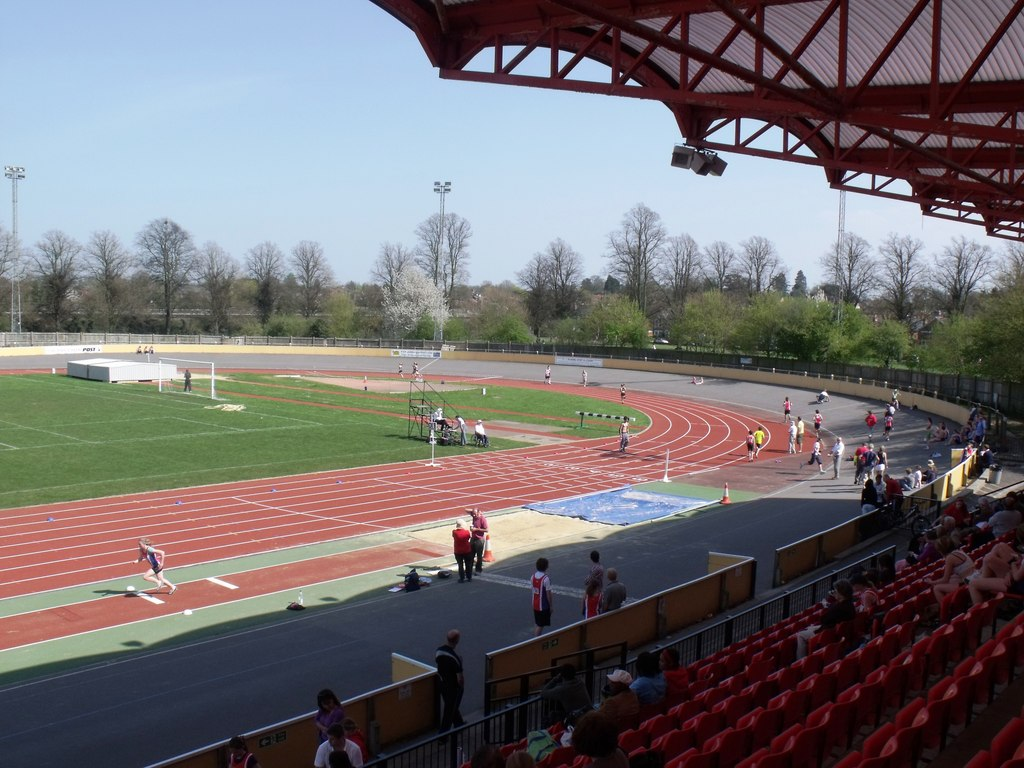 Taken during a meeting of Reading Athletics Club at their home venue.